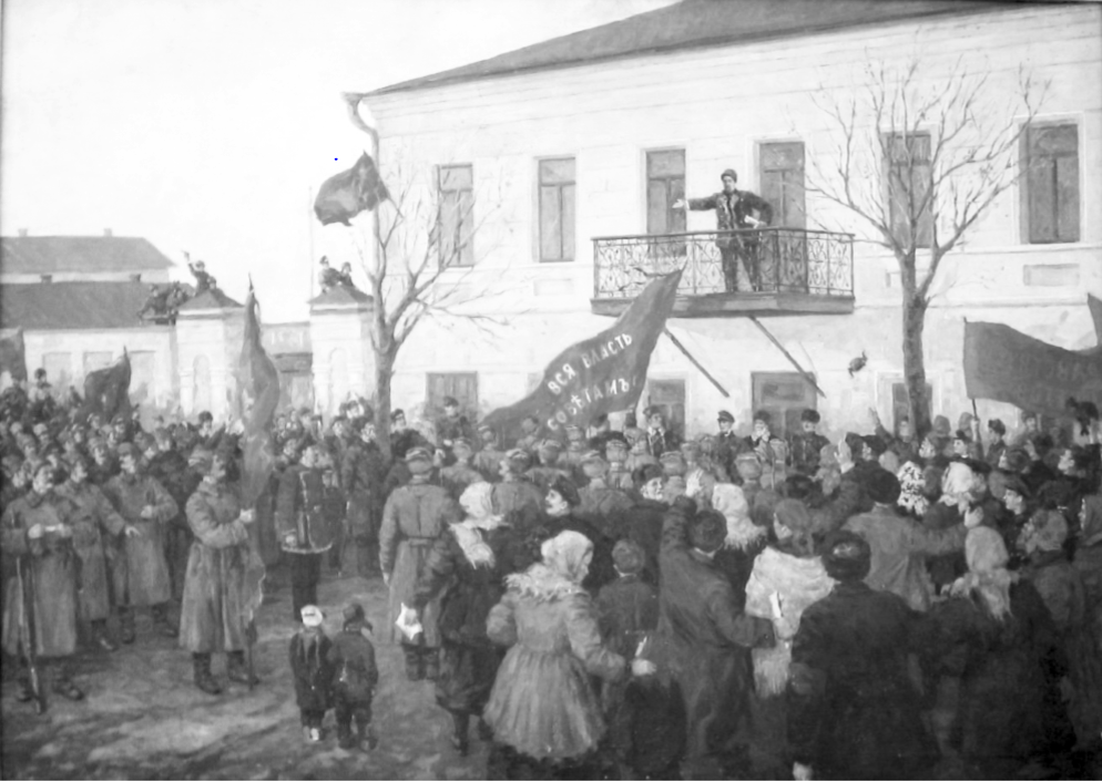 Artist N. Danshin. Ispolatov N. N. proclaims Soviet power in Usman.